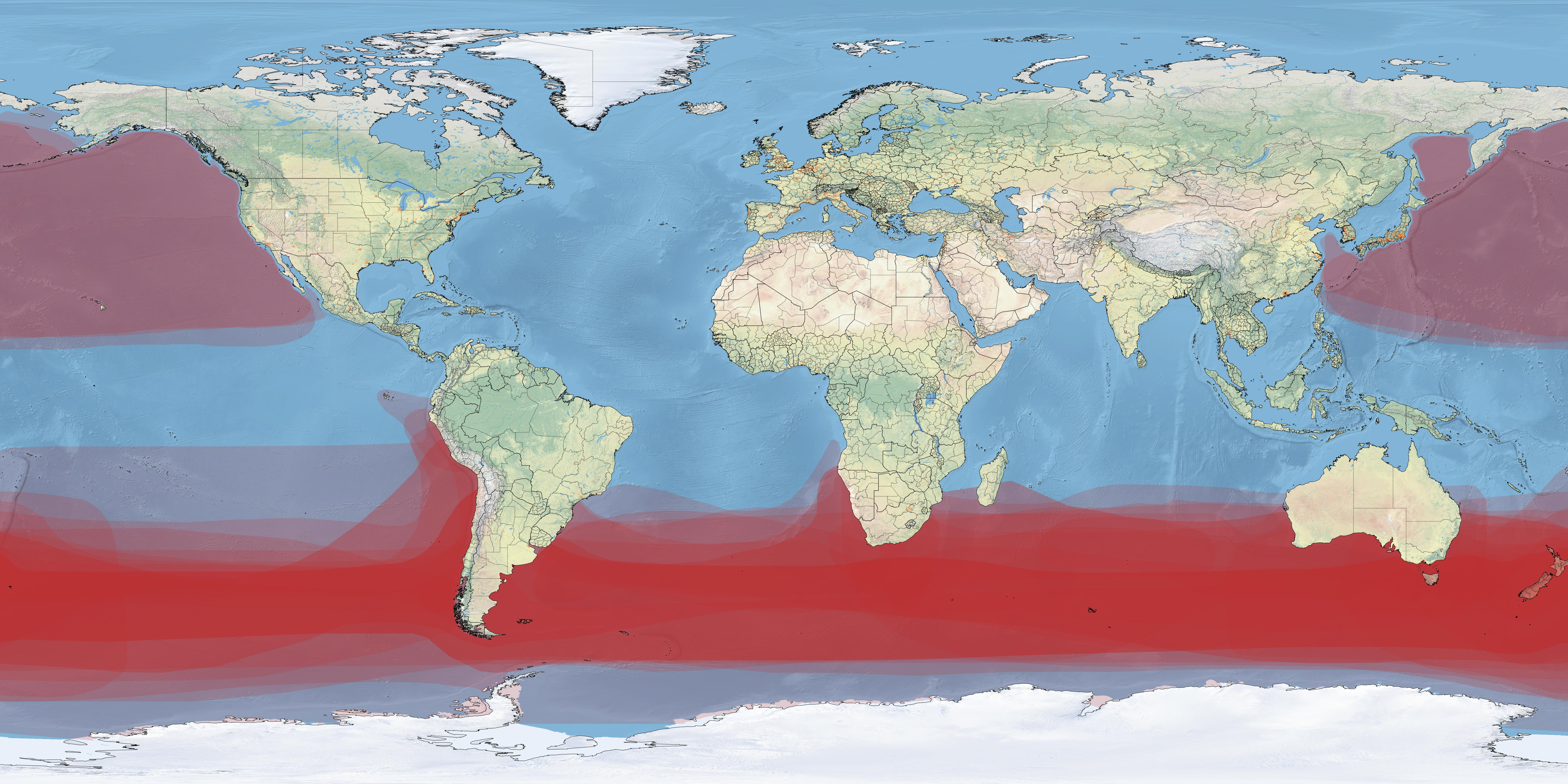 Worldwide distribution of Albatross. The deeper the shade of red the more species found there.